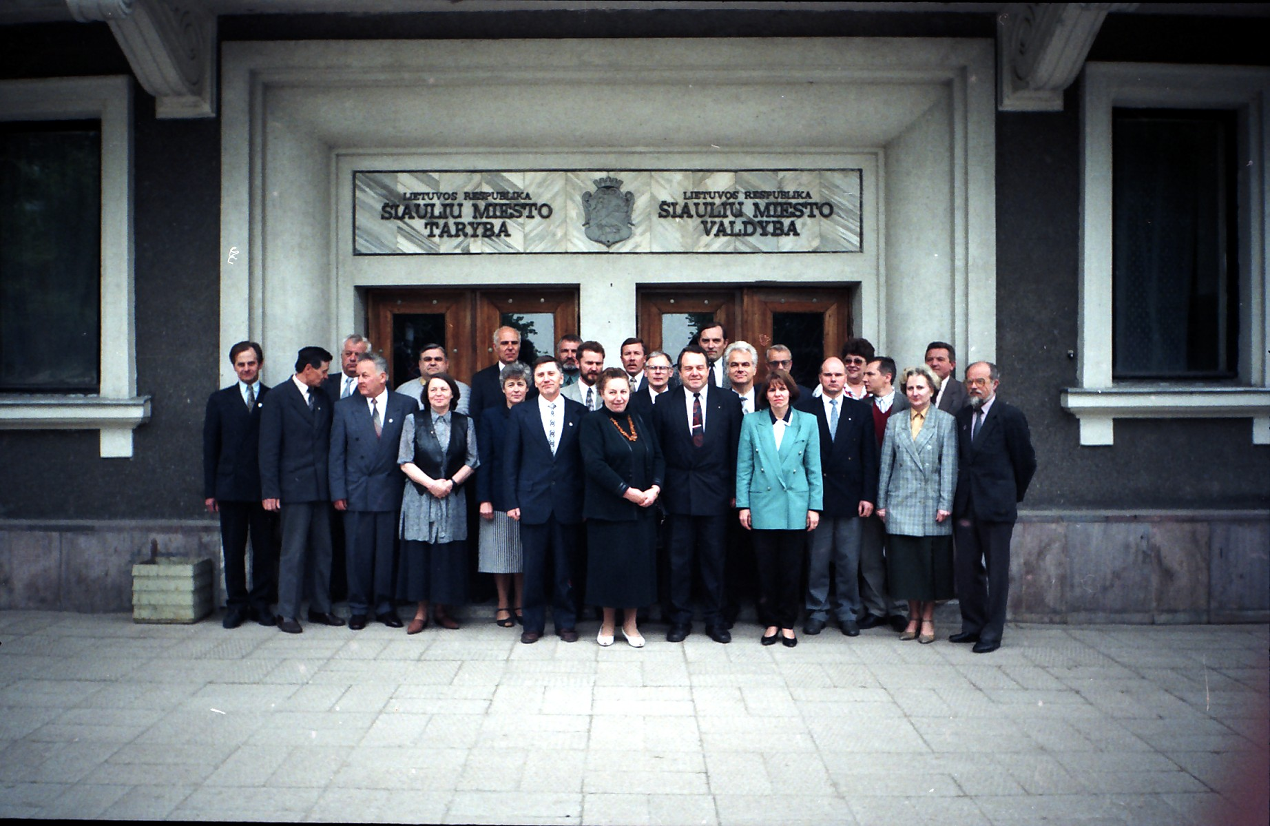 Council of Siauliai city 1996 y.